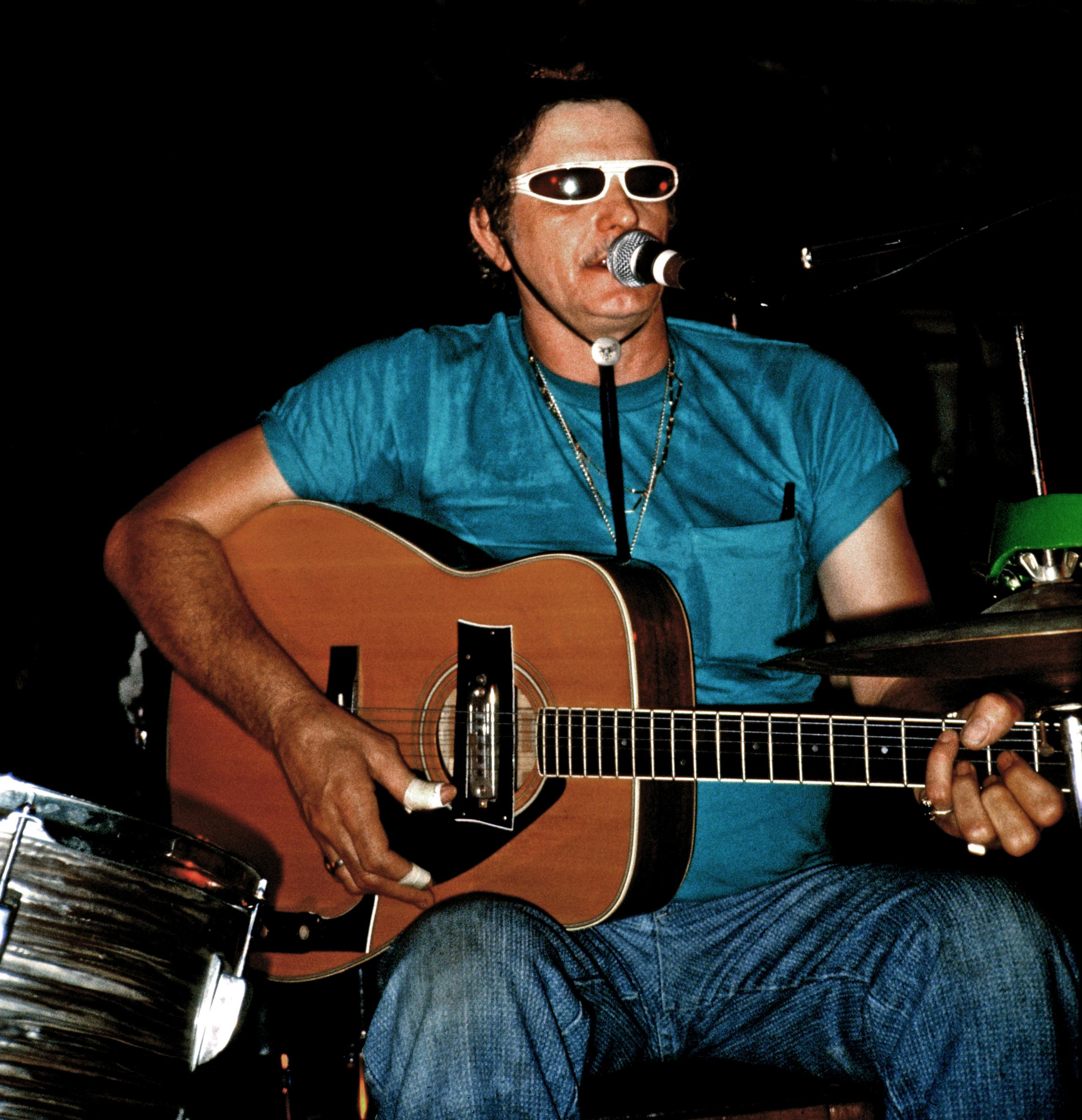 Hasil Adkins performing live at the Milestone Club in Charlotte, NC, on 10 May 1991.